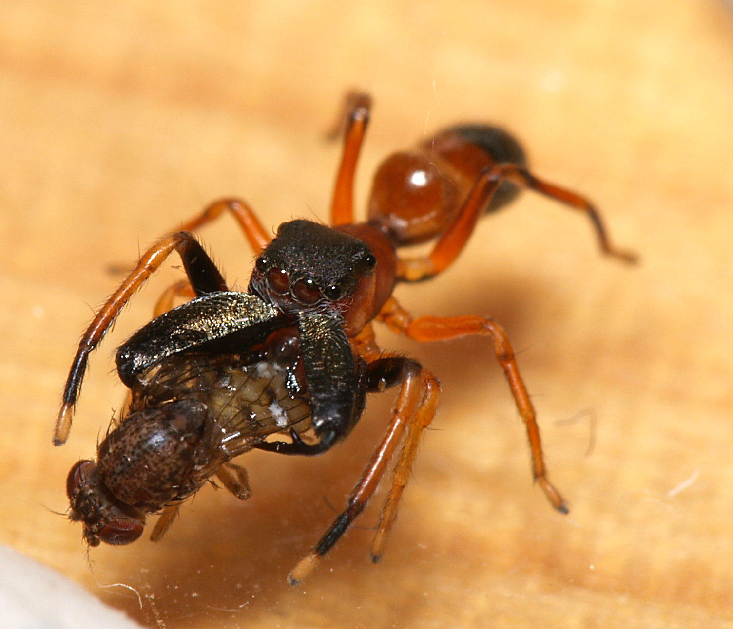 male Myrmarachne formicaria from Cologne, Germany, eating a Drosophila.